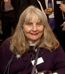 Baroness Masham of Ilton. Masham at the All-Party Parliamentary Gardening & Horticulture Group meeting, November 2011